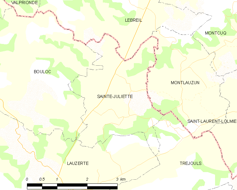 Map of French municipality Sainte-Juliette